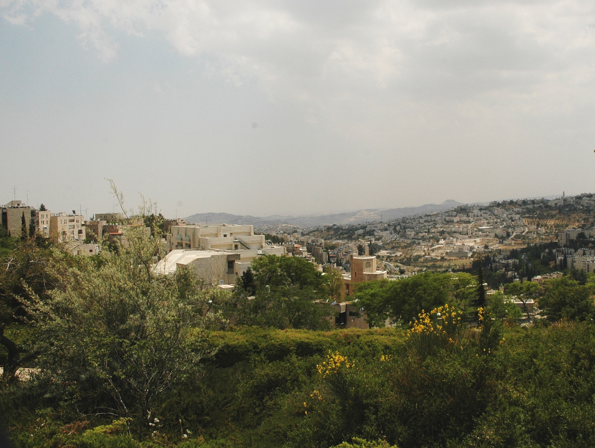 View of East Talpiot from Armon Hanatziv.